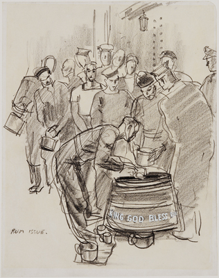 A sketch by John Worsley, an art graduate serving on the armed merchant ship Laurentic at the time. Published by the National Gallery as part of an exhibition of "war artists" following the conclusion of the war.